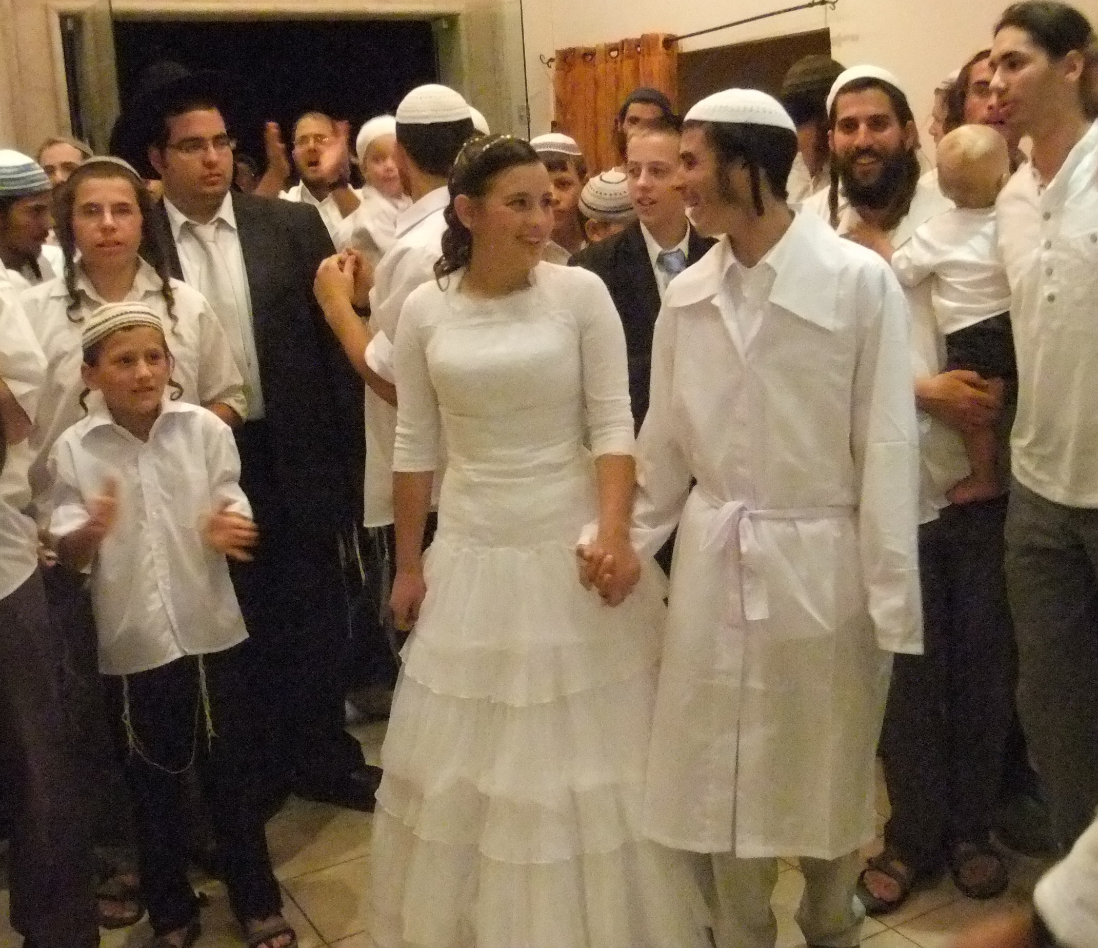 The husband takes his wife after the wedding by her hand to the Cheder Yichud according to Minhag Yerushalayim